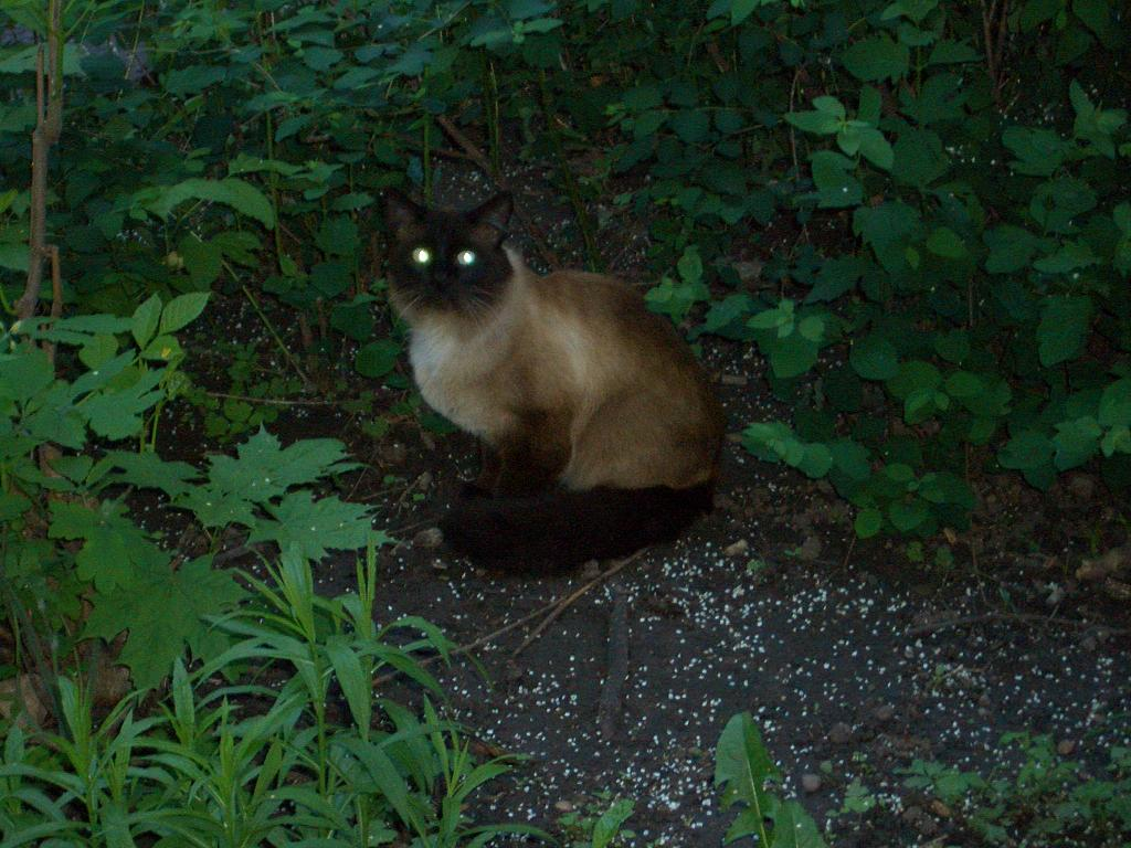 Coliseum the cat is apprehensive of photographers. (A Russian-Siamese mixed breed)